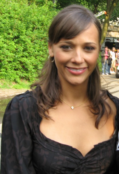 Rashida Jones at the 2007 Fox Television Upfronts